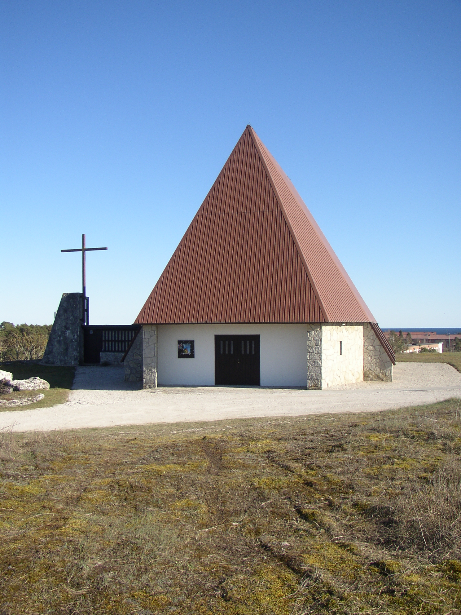 The church of Slite